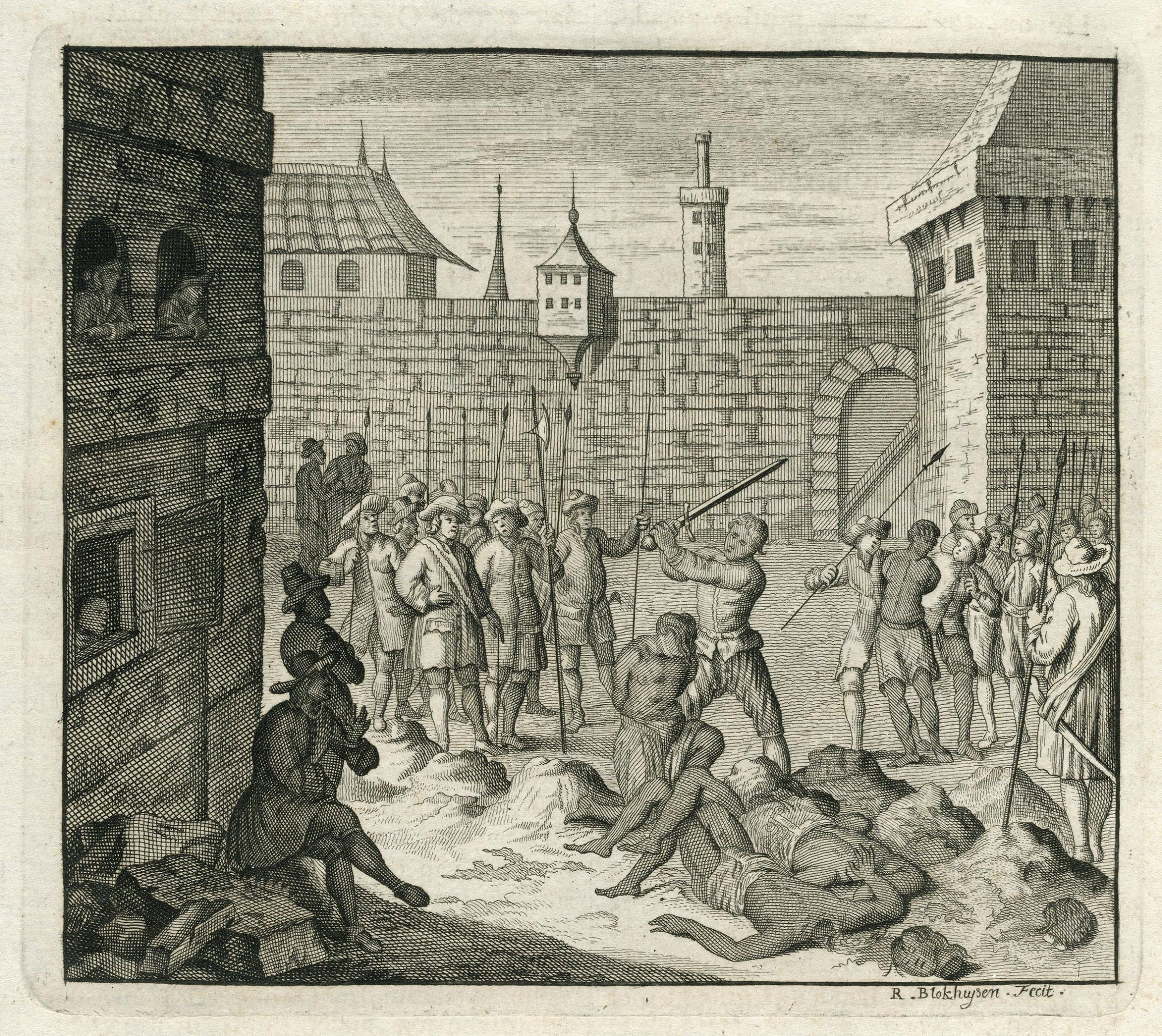 Beheading of Moluccan 'mutineers' in Fort Victoria on Ambon in 1653. The illustration is taken from the work 'Oud en Nieuw Oost-Indiën' by François Valentyn. This incident forms part of the "Amboinese wars" the VOC waged with the Moluccans from 1651-1656.